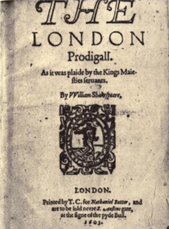 Title page of The London Prodigal